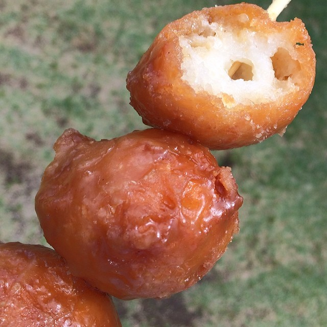 Cascaron- fried mochi balls